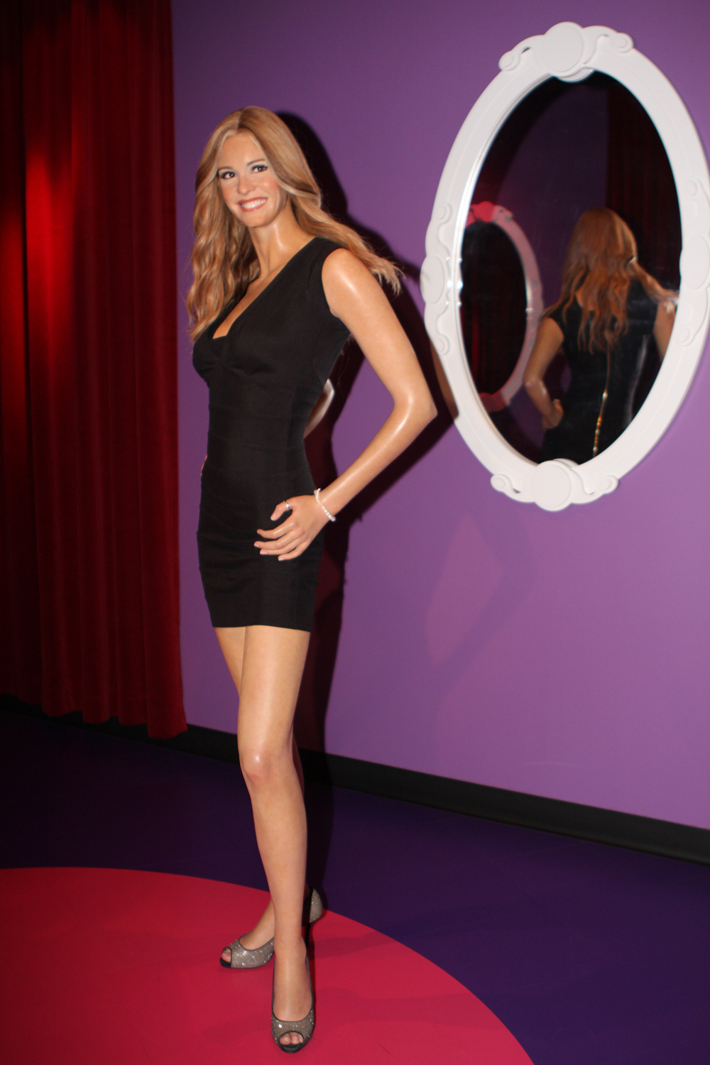 Elle Macpherson in wax at Madame Tussauds Sydney, Australia